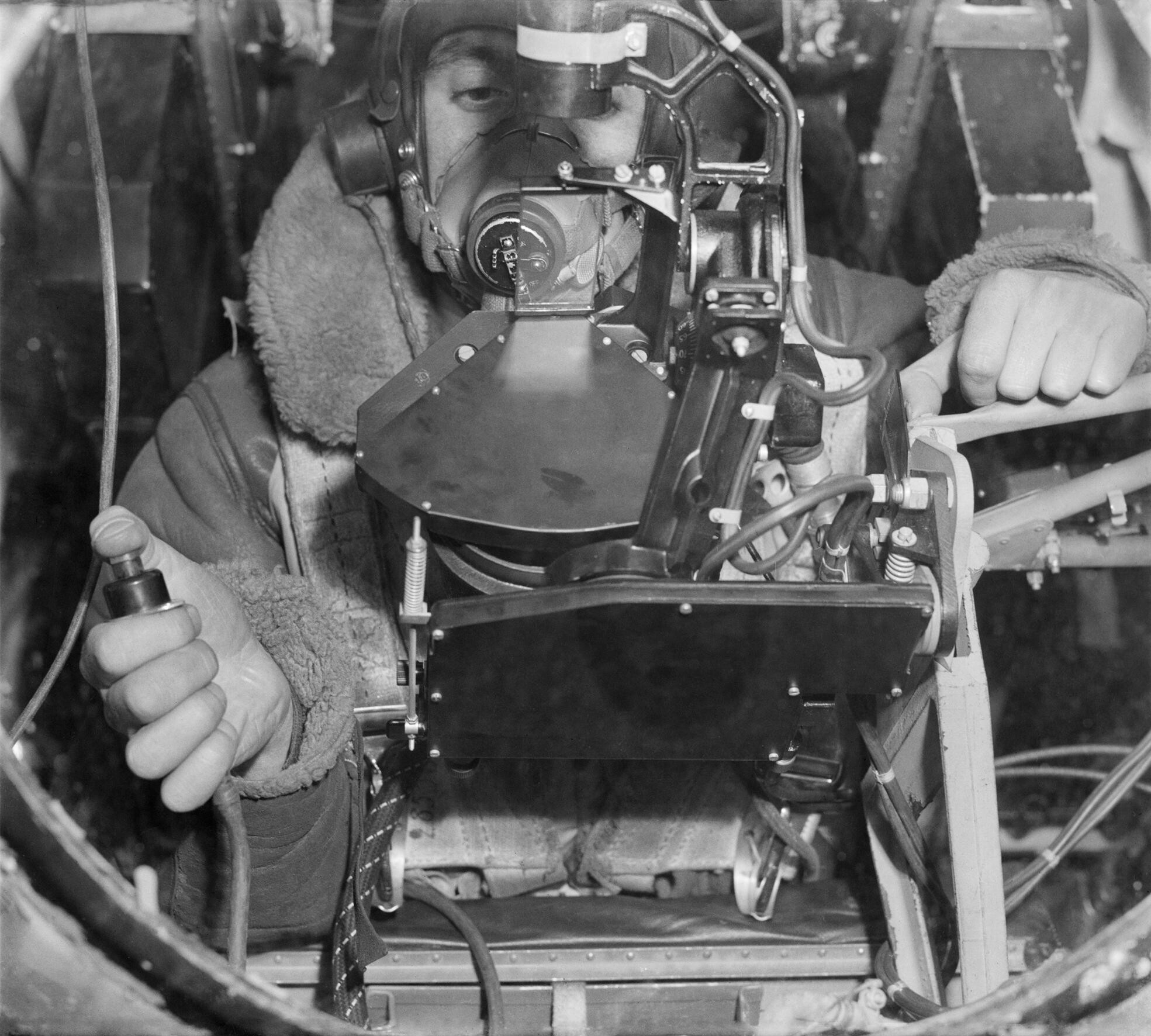 Royal Air Force Bomber Command, 1942-1945. Flight Lieutenant P Walmsley of Hull, Yorkshire, the bomb-aimer on board an Avro Lancaster B Mark III of No. 619 Squadron RAF, operating a Mark XIV Stabilised Vector Bombsight at his position in the nose of the aircraft, at Coningsby, Lincolnshire.